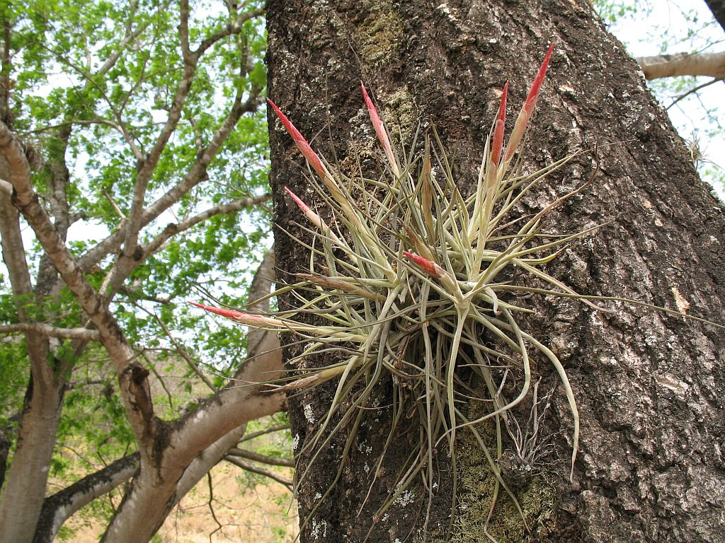 Tillandsia schiedeana in habitat near Esquipulas, Dept. Chiquimula, Guatemala